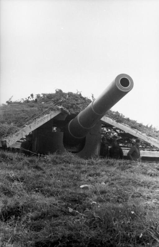 Information added by Wikimedia users.